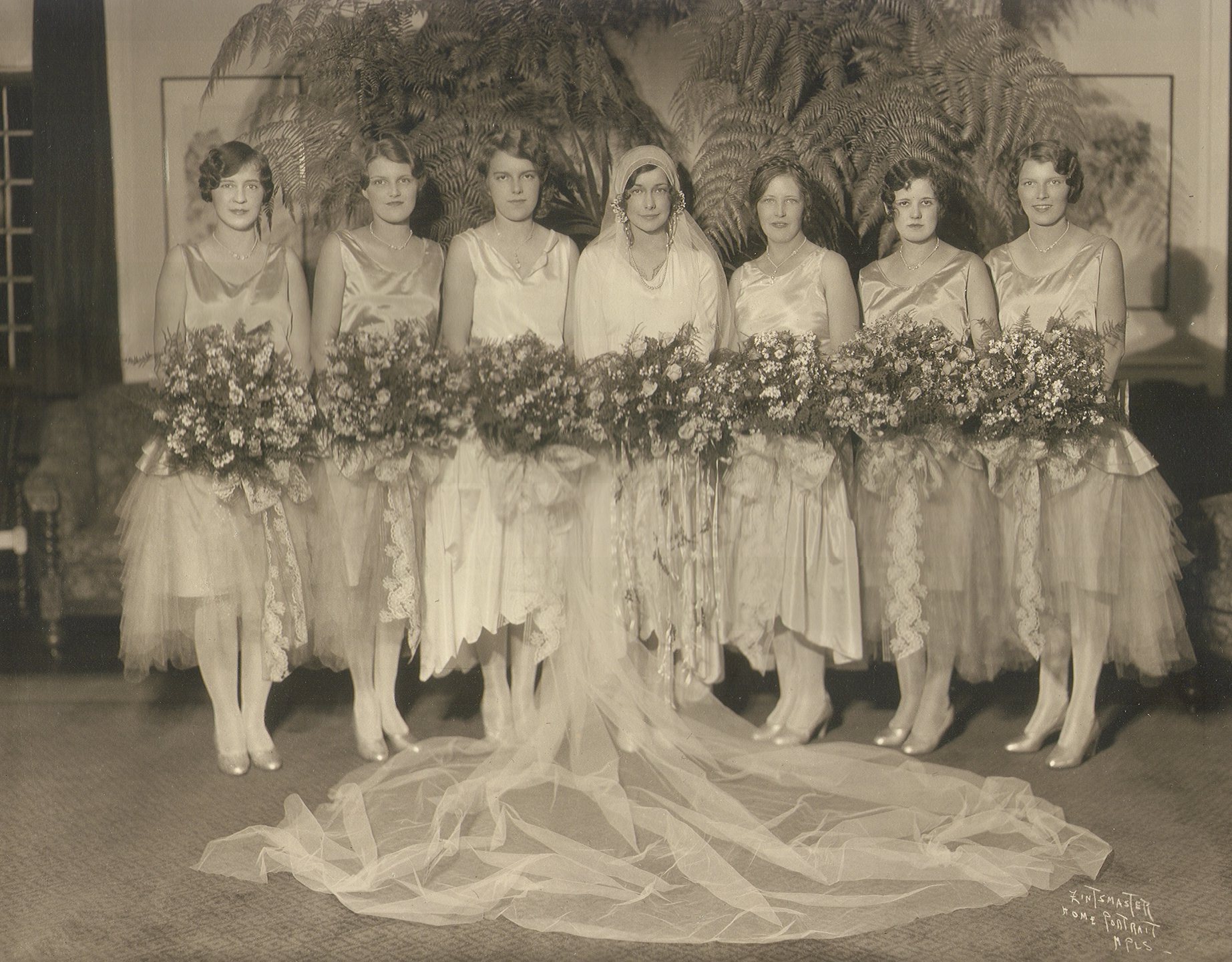 Bride in wedding dress flanked by her bridesmaids, 11 September, 1929, Minneapolis, Minnesota.